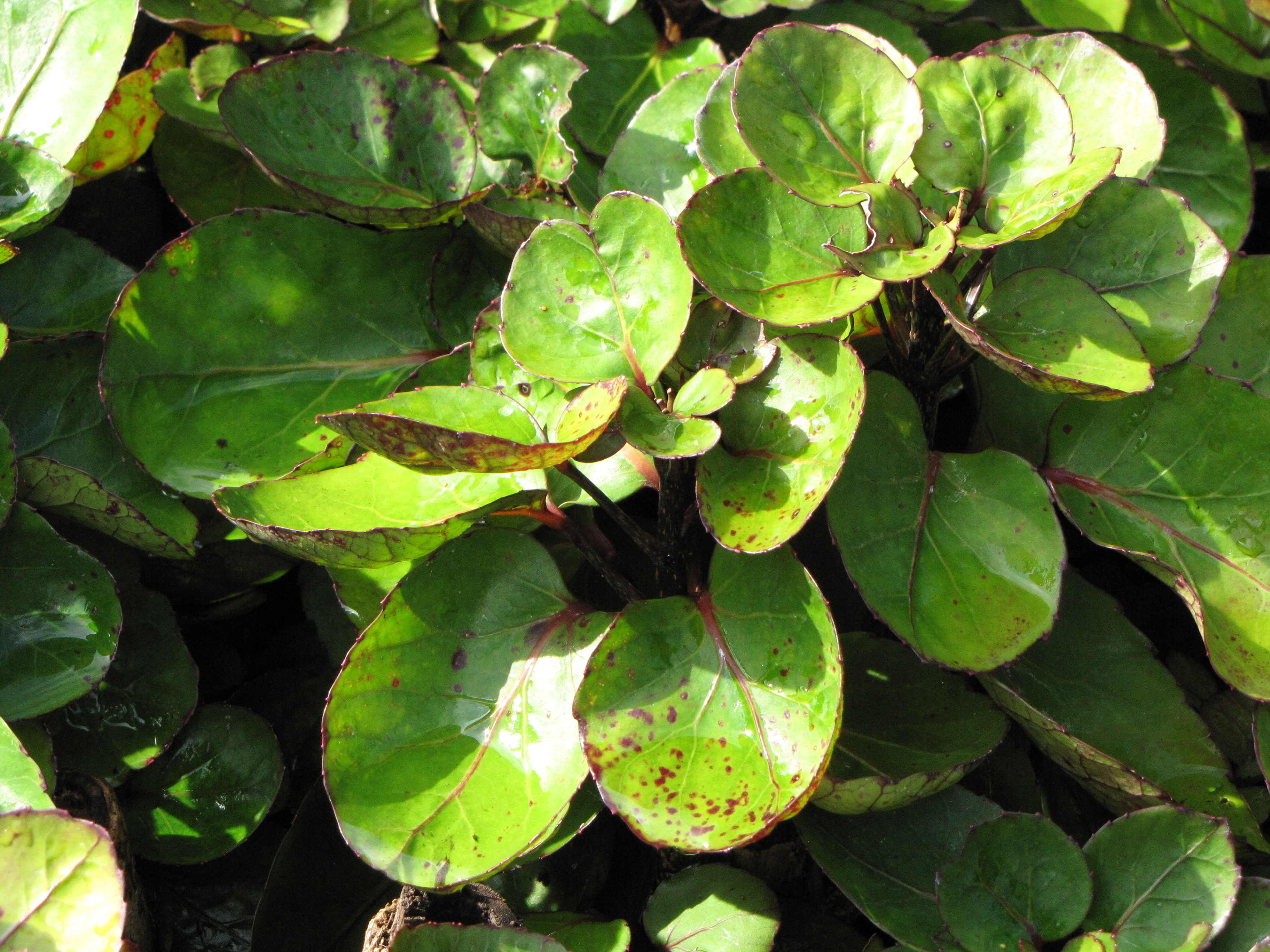 Polyscias scutellaria (Panax, round leaved panax) Leaves at KiHana Nursery Kihei, Maui, Hawaii. February 15, 2011 #110215-1128 Image Use Policy